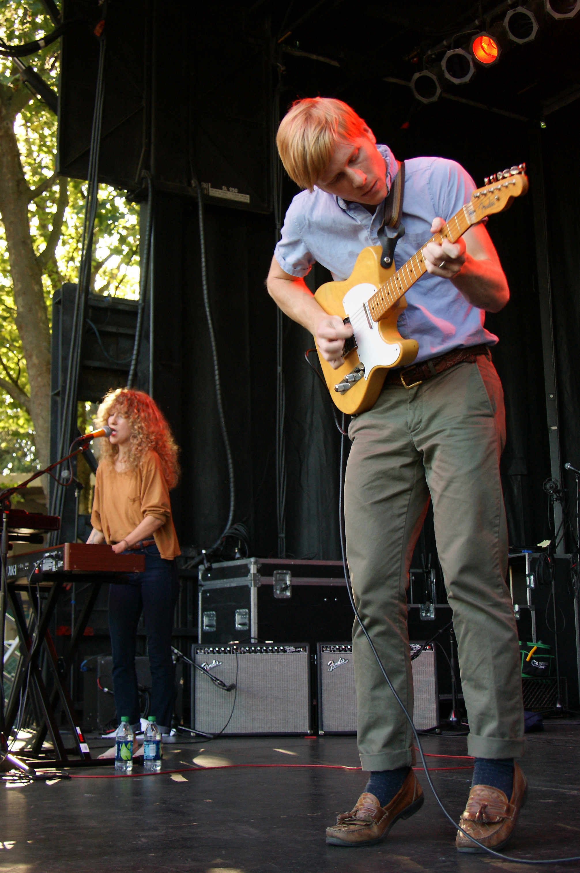 Alaina Moore & Patrick Riley of Tennis at Bumbershoot 2011 Seattle